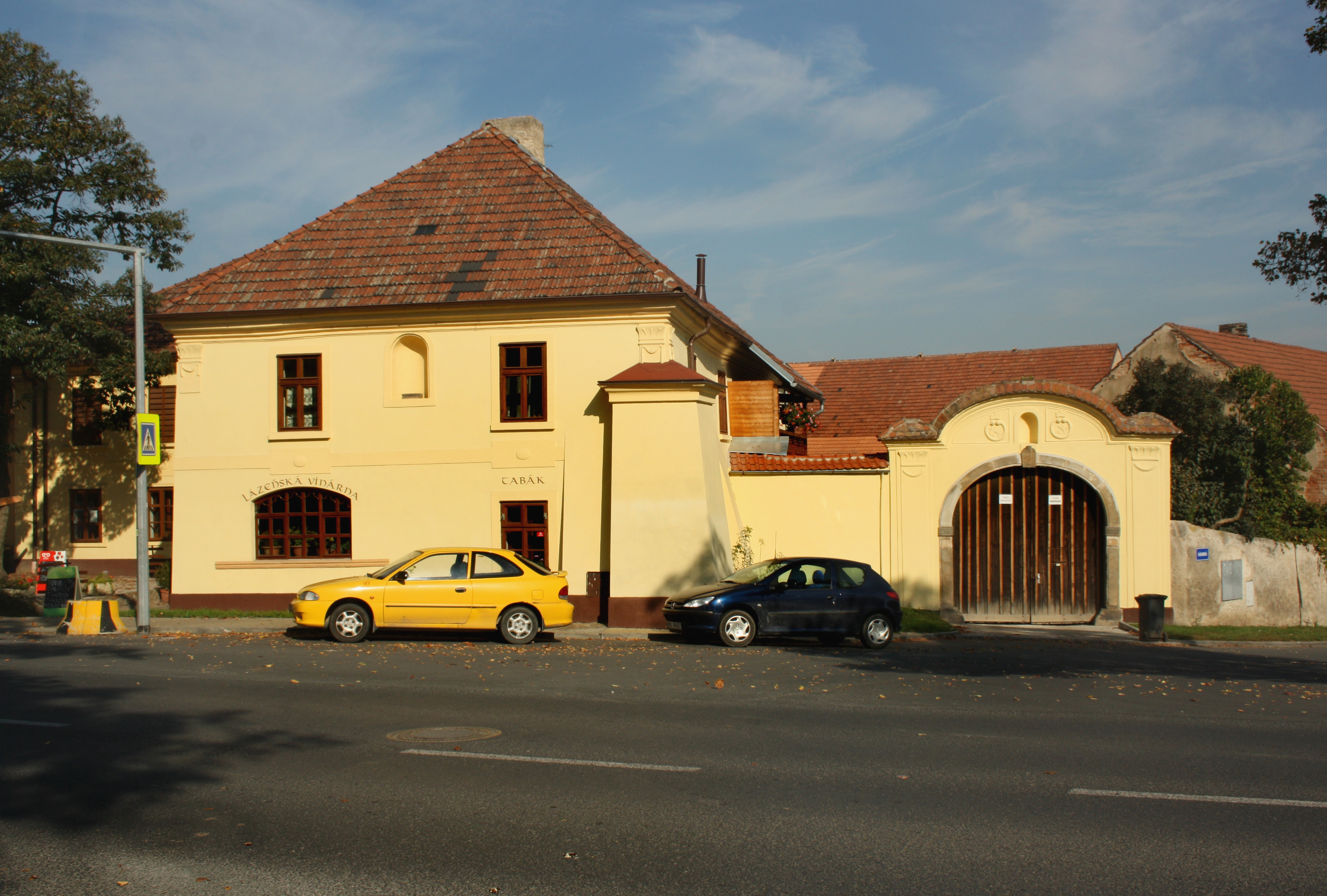 Old farm in Lázně Toušeň, Czech Republic